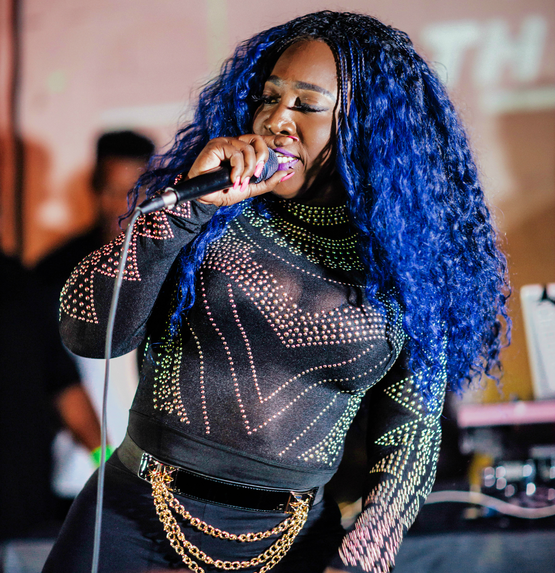 Jamaican musician Spice performing at The Paper Box in Brooklyn, November 2016.